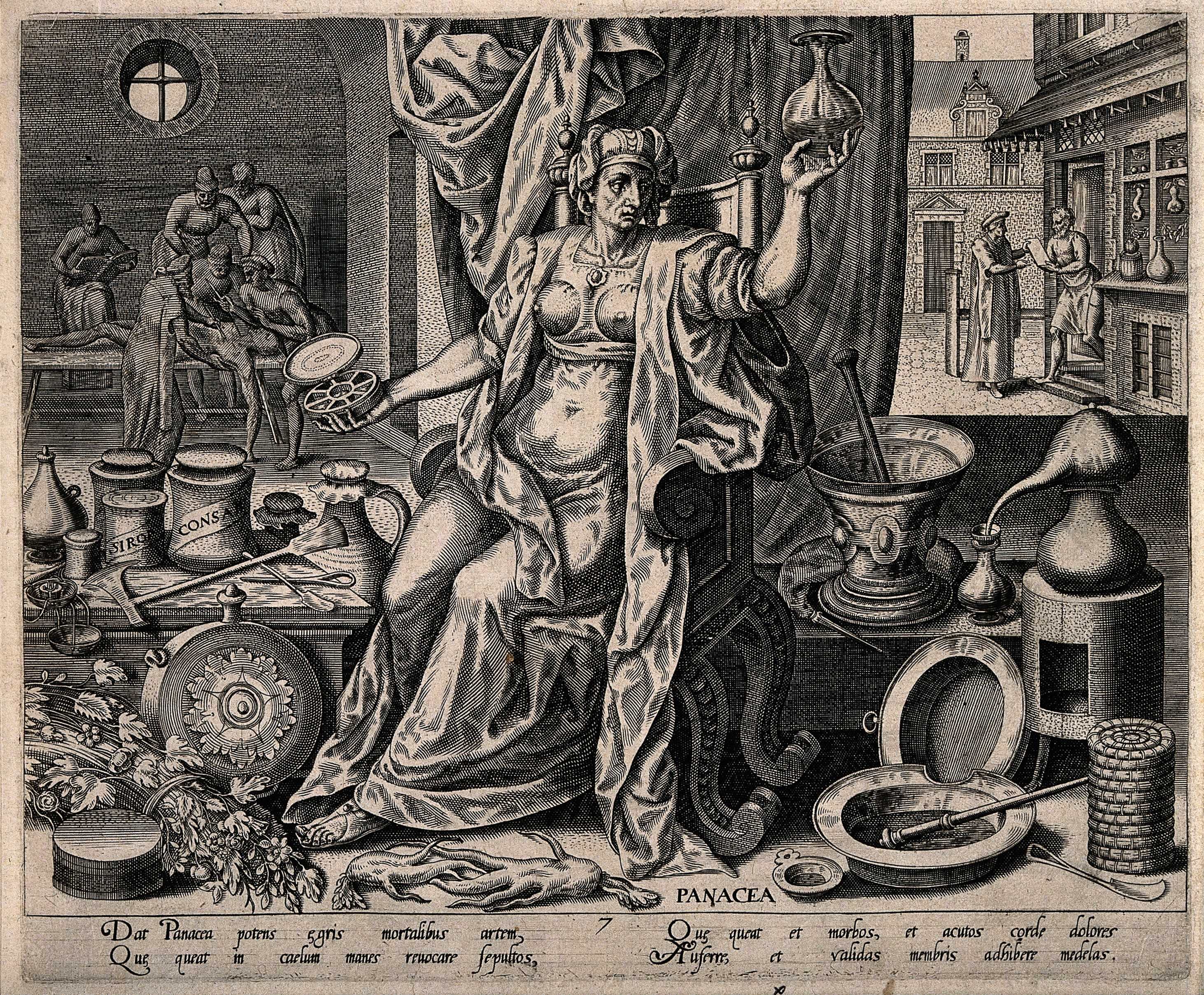 Panacea, daughter of Æsculapius, examining a urine flask and surrounded by medical paraphernalia. Iconographic Collections Keywords: epb 5822; schedel, hartmann; Public Health; Dissection; Pharmacy; Anatomy; Philipp Galle; Surgery